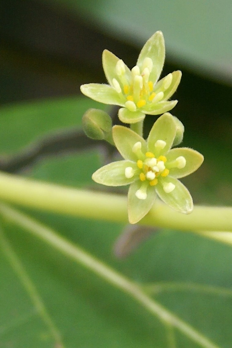 Flowers of an avocado tree (Persea americana)